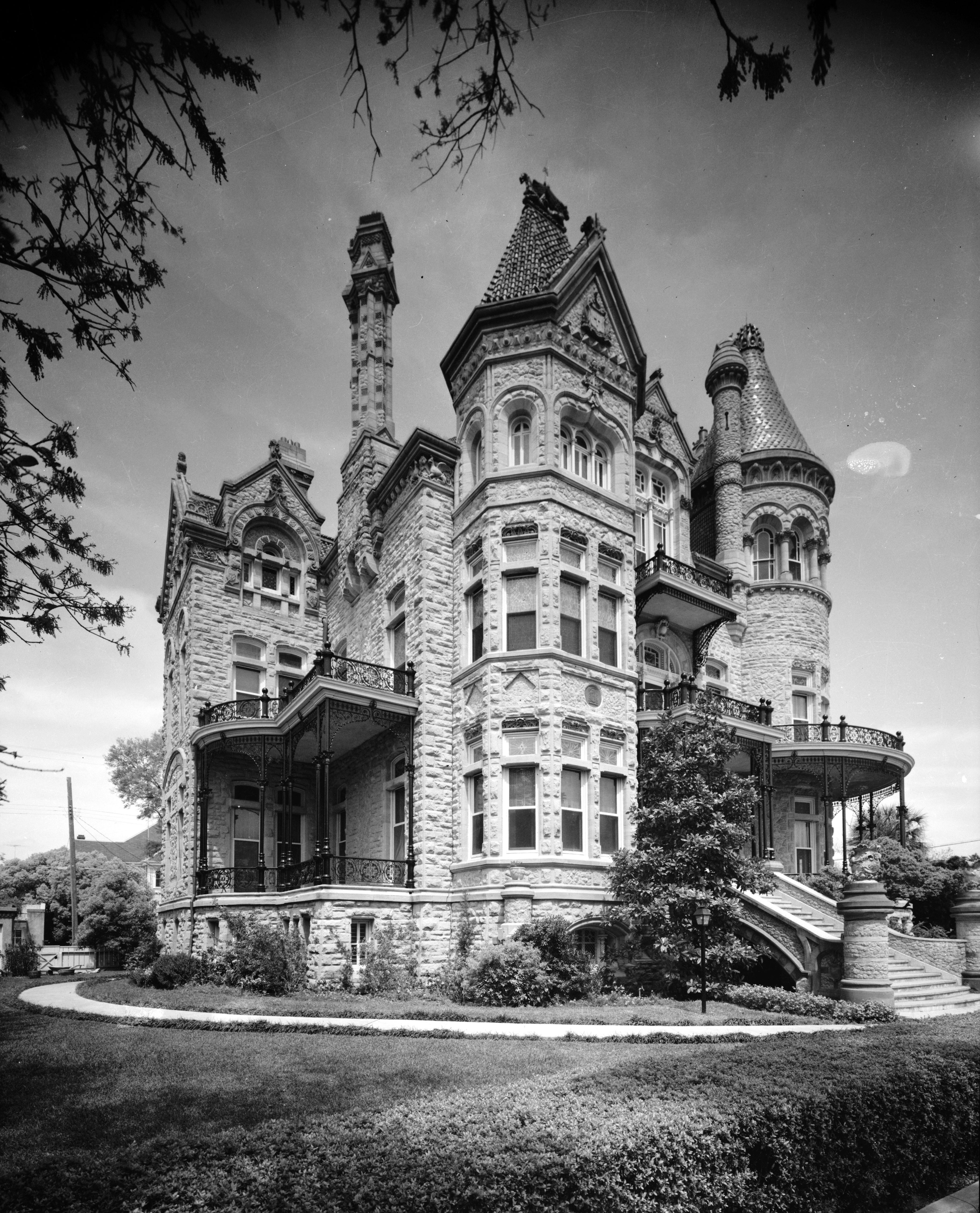 The Colonel Walter Gresham House — 1402 Broadway, Galveston (Galveston County, Texas) (cropped). Historic American Buildings Survey—HABS image.